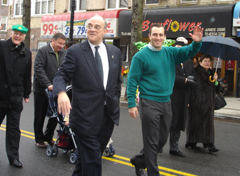 Rep. Vito Fossella marches with State Conservative Party Chairman Mike Long at the Brooklyn St. Patrick's Day Parade